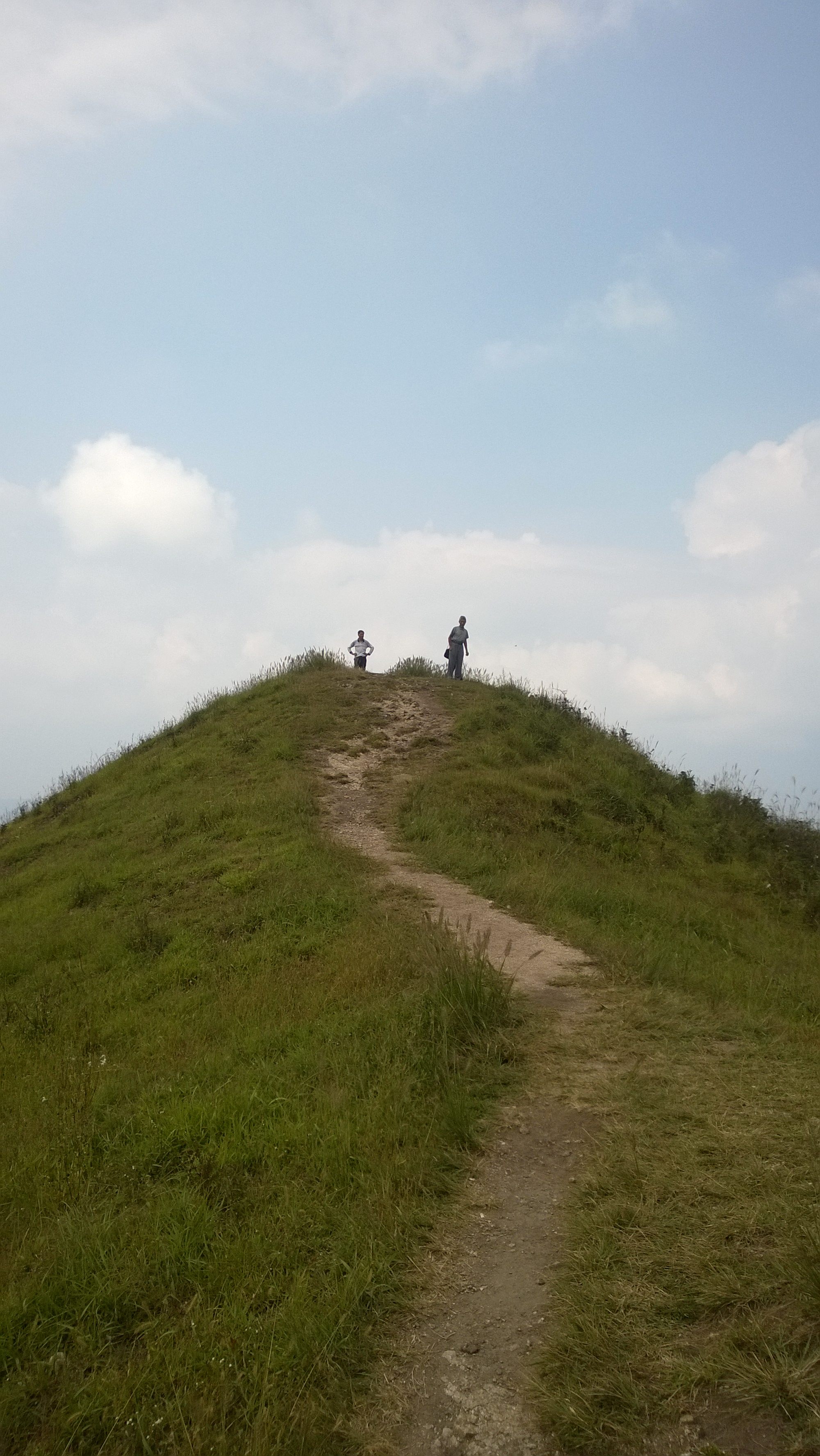 The top of the Dawushan Mountain, in Fengbian Township, Xingguo County.